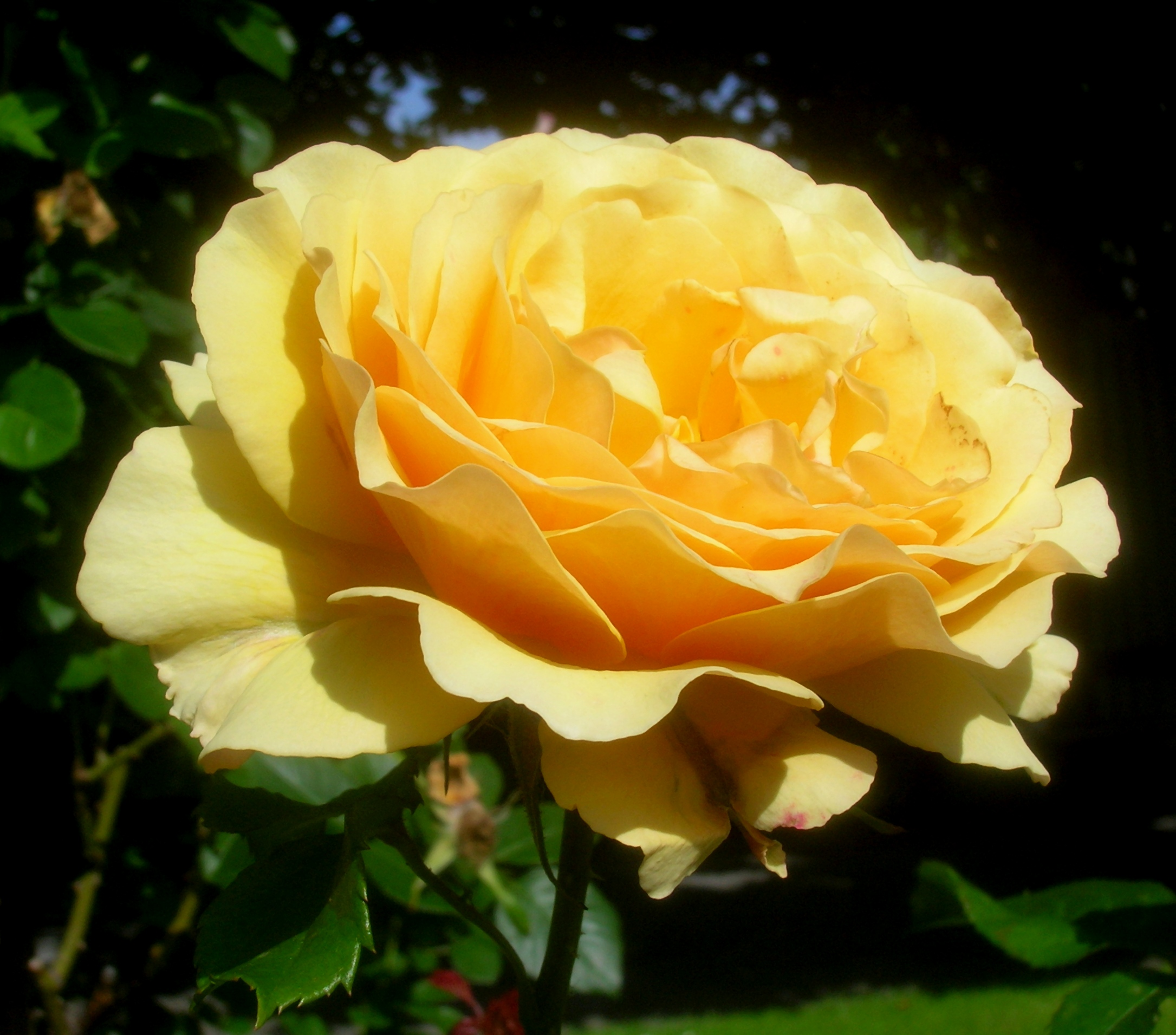 Rosa 'Prinz Eugen von Savoyen' in the Volksgarte in Vienna.